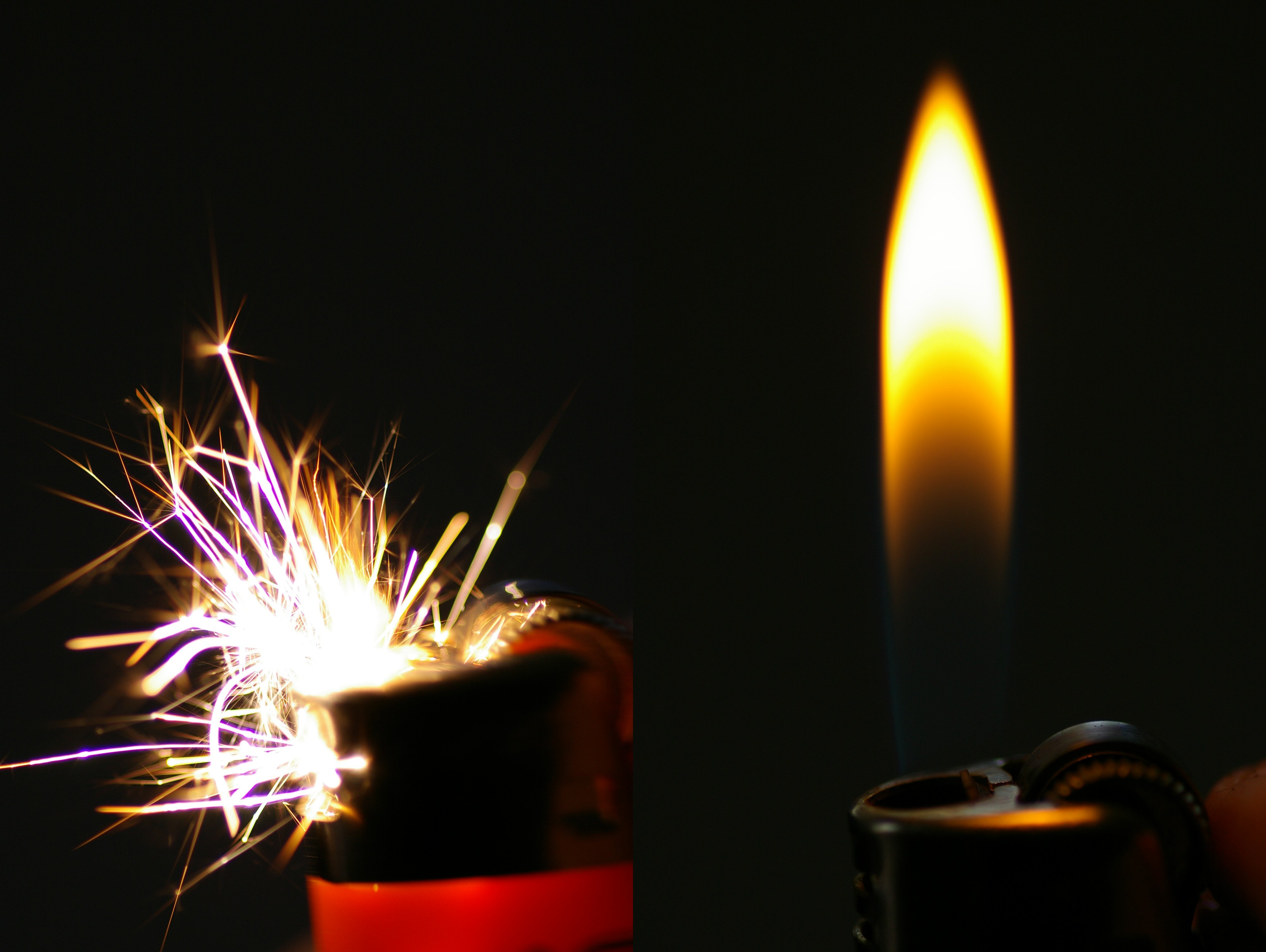 Lighter that still has sparks flying and a constant flame.